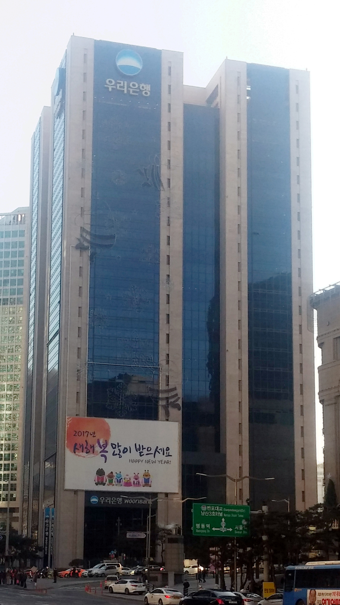 Woori Bank Headquarters in Jung-gu, Seoul, South Korea.